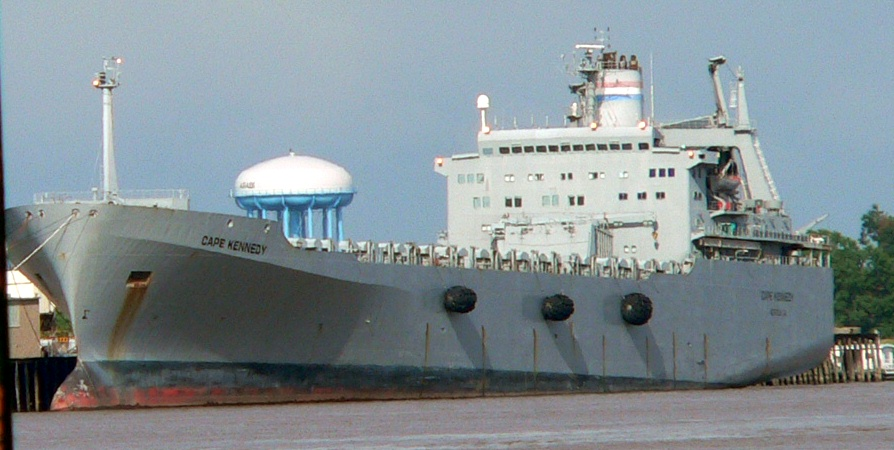 USS Cape Kennedy moored at Naval Support Activity New Orleans on the Mississippi River near the French Quarter, New Orleans, LA, July 29, 2007.